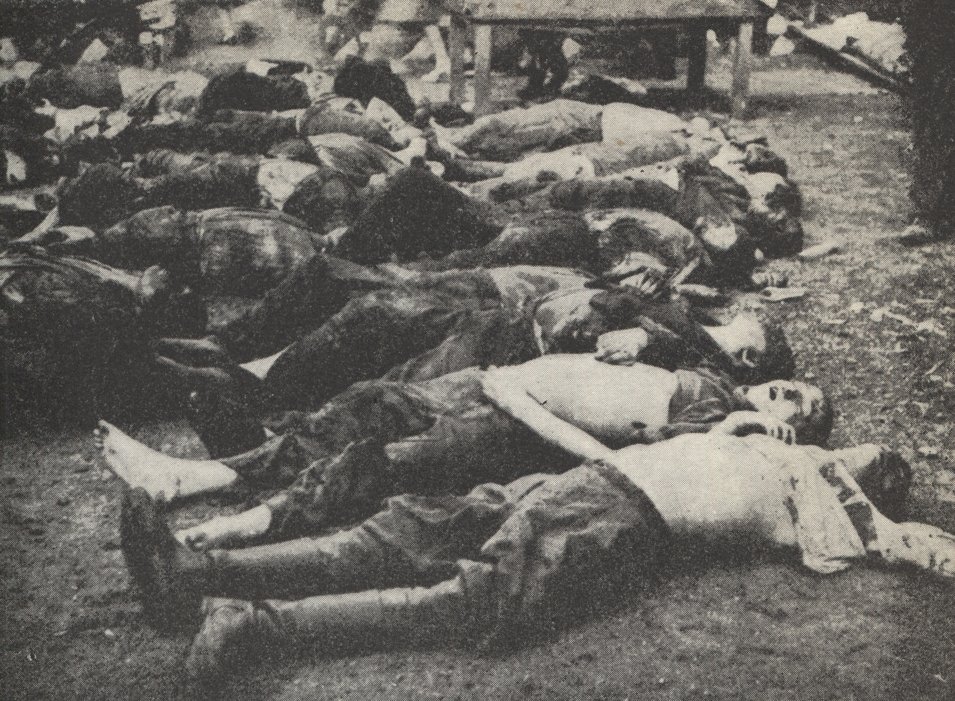 Polish and Jewish prisoners held at Lublin Castle, murdered by retreating German troops on 22nd July 1944.